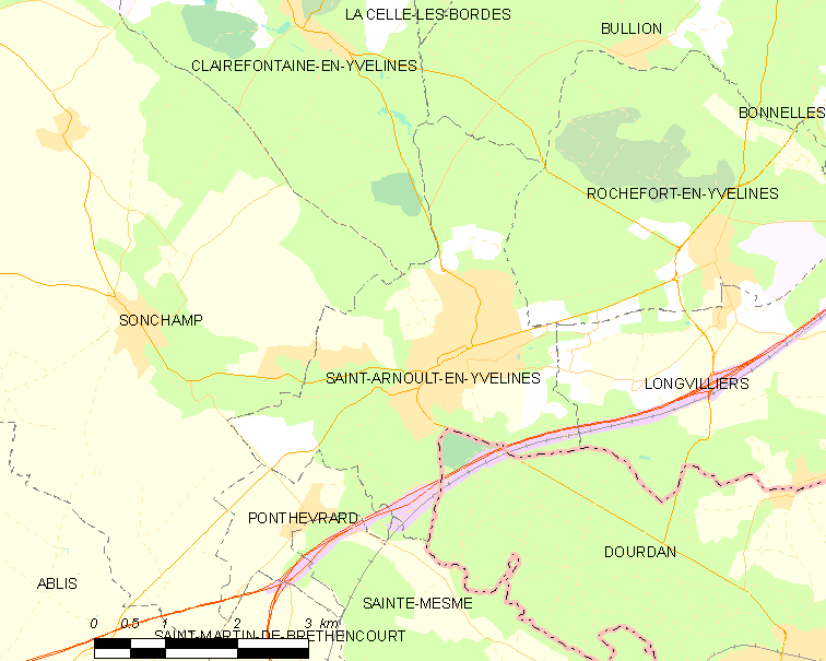 Map of French municipality Saint-Arnoult-en-Yvelines